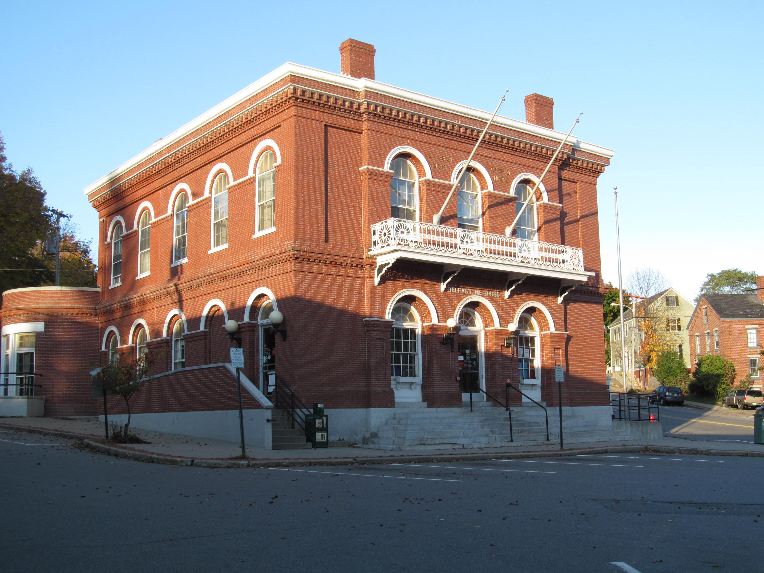 The former US Custom House and Post Office, Belfast, Maine. Part of the Belfast Historic District.